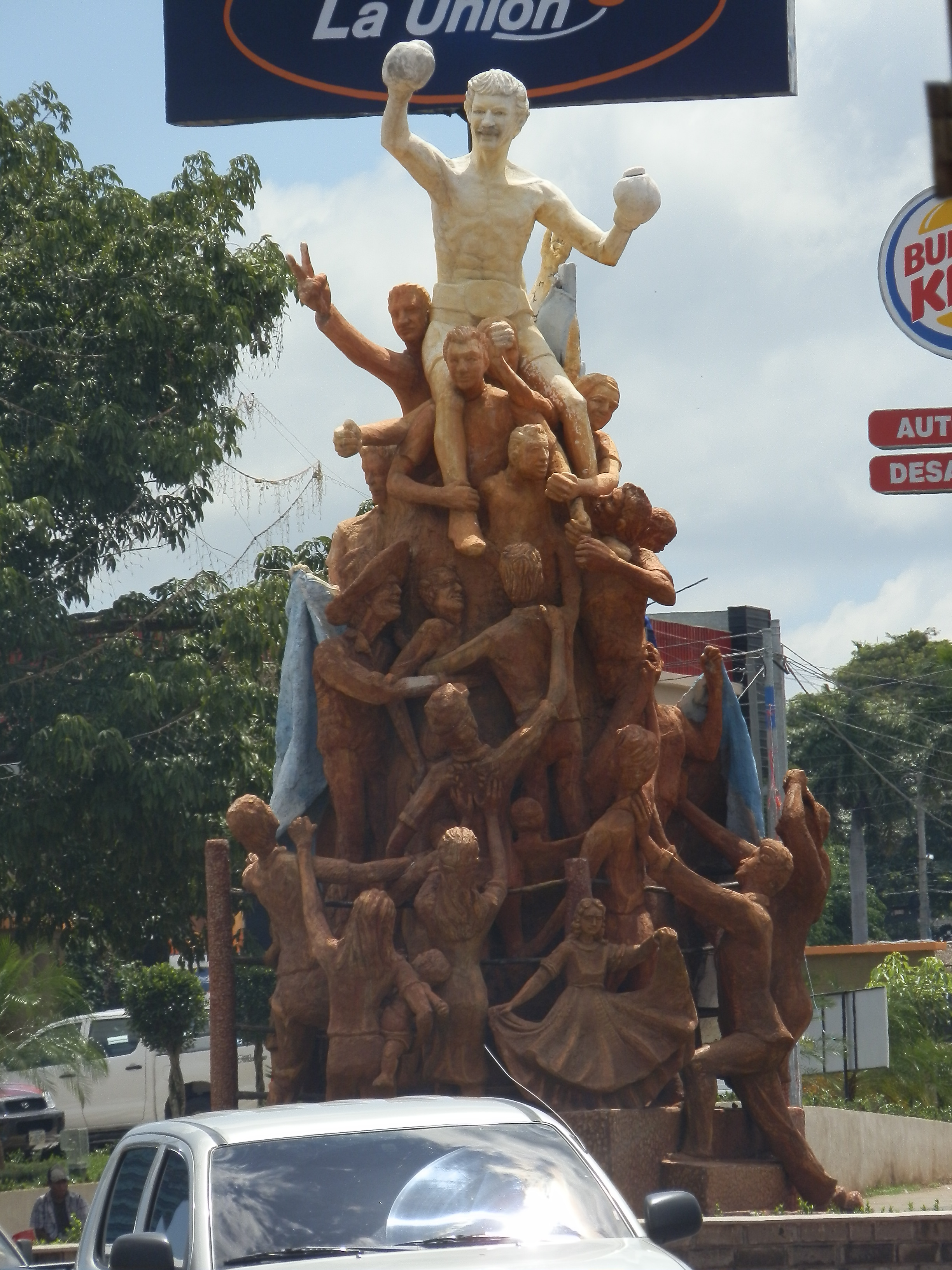 Memorial to Alexis Argüello (April 19, 1952 – July 1, 2009), a Nicaraguan professional boxer and politician. After his retirement from boxing, Argüello became active in Nicaraguan politics and in November 2008 he was elected mayor of Managua, the nation's capital city. He allegedly committed suicide on July 1, 2009.